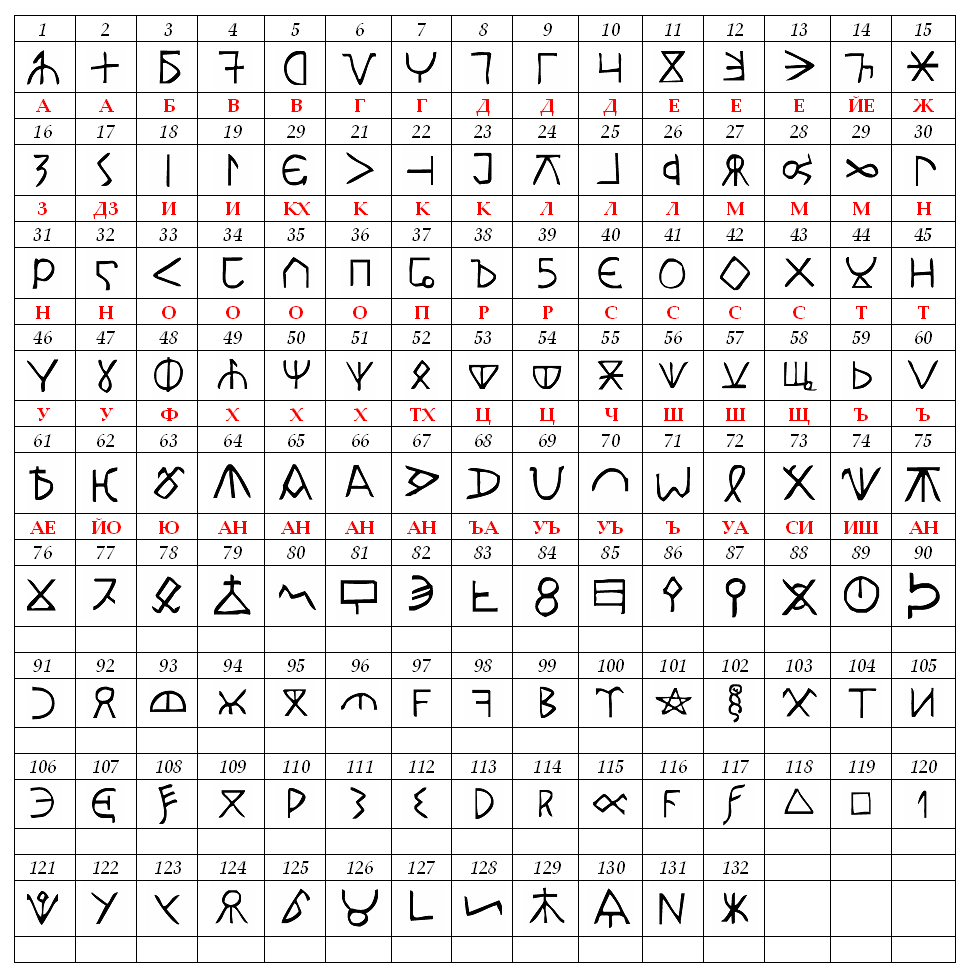 The medieval Bulgar script